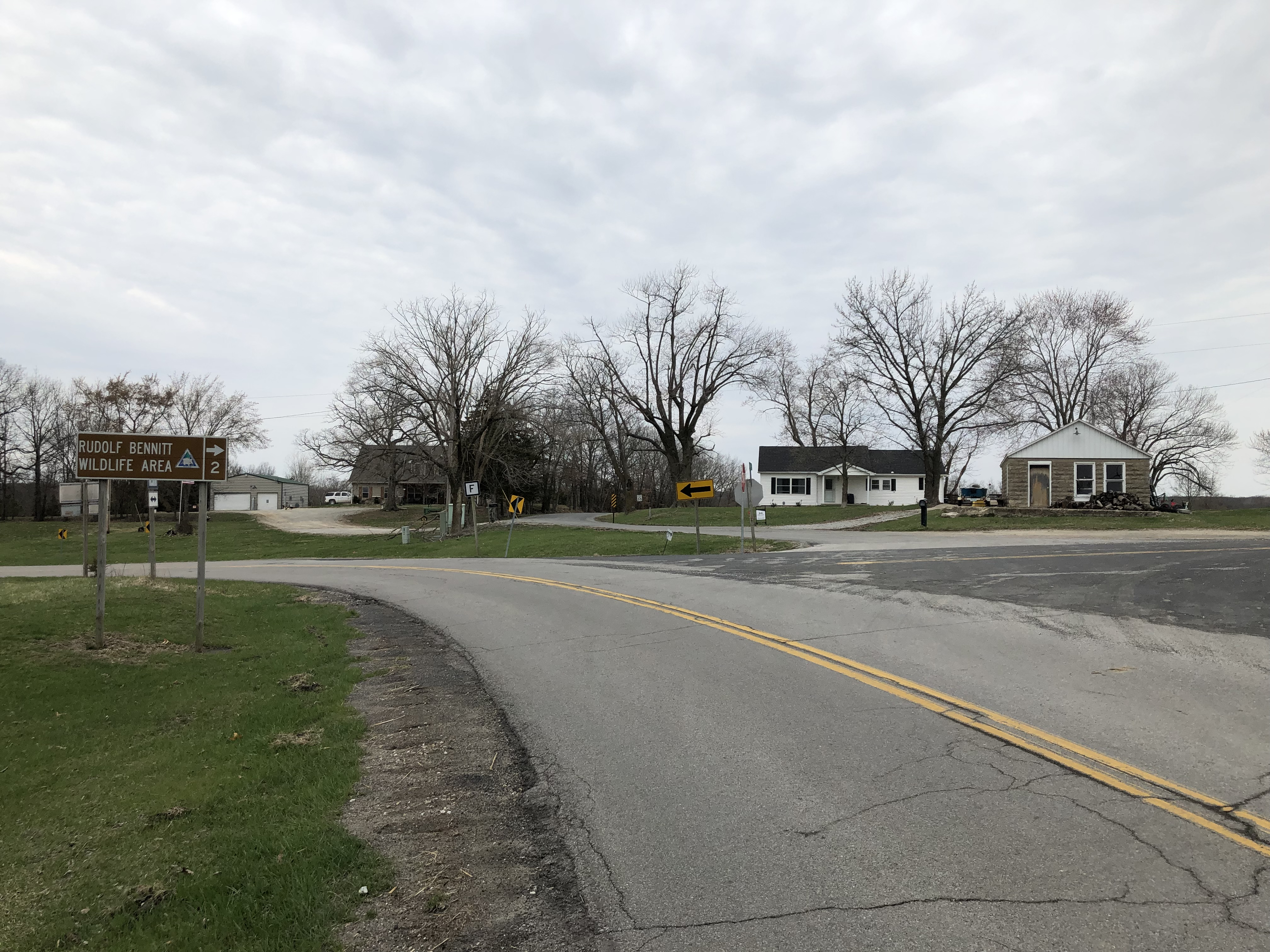 Rucker, Misssouri ok April, 3rd 2019